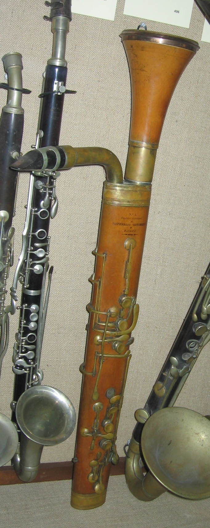 Glicibarifono, a form of bass clarinet in C invented by Catterino Catterini of Padua in 1838, boxwood. Photographed at the Bate Collection at the University of Oxford, England.